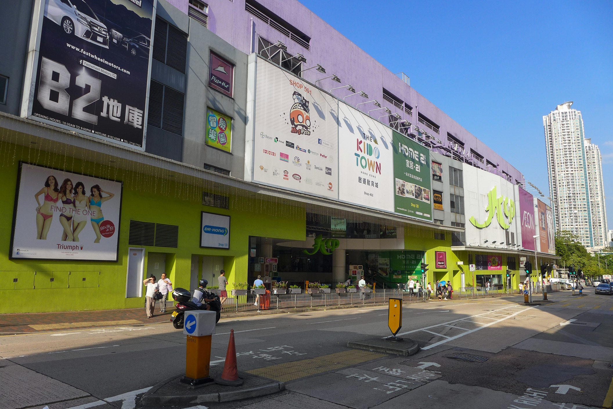 Kowloon City Plaza